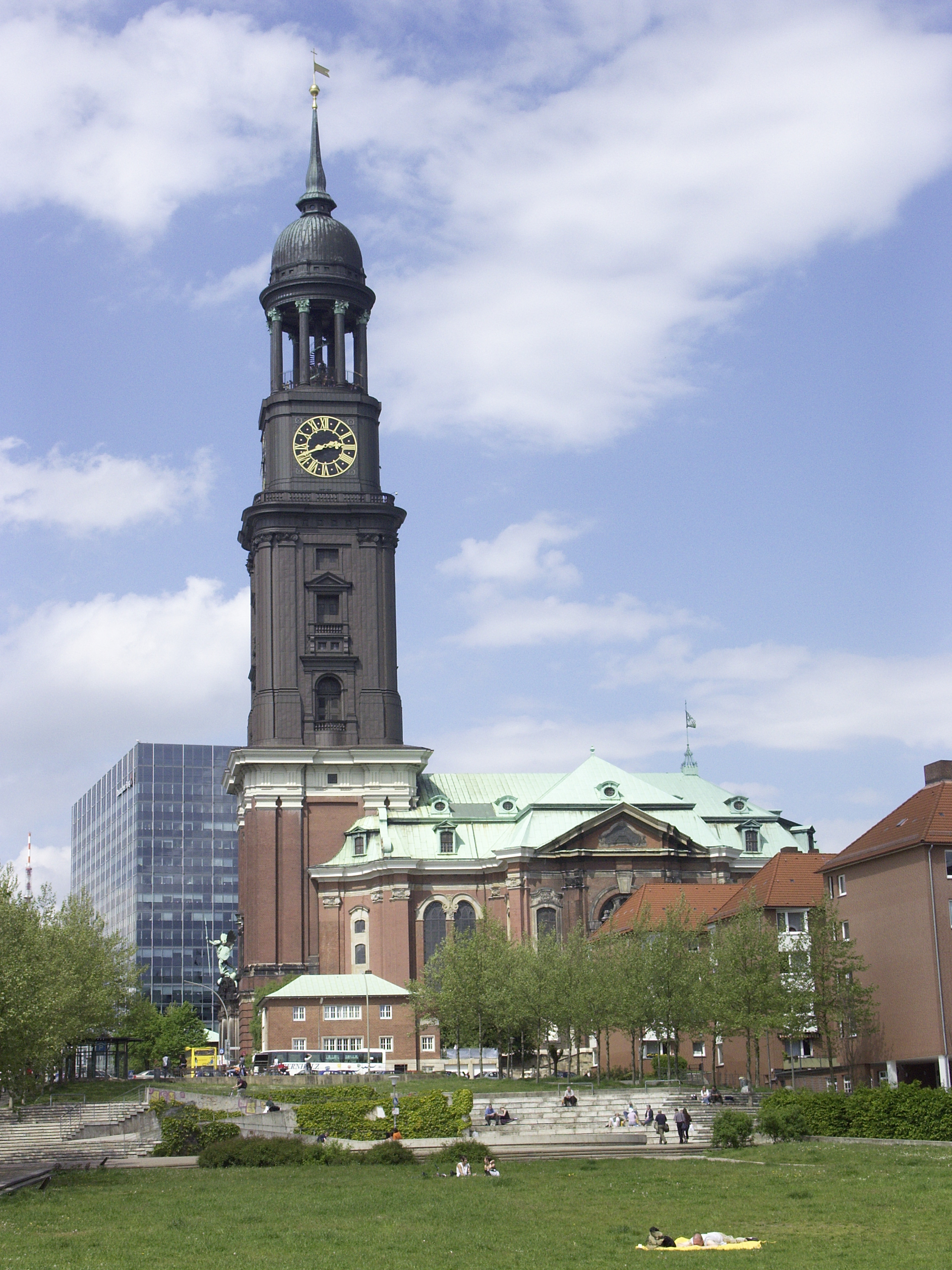 St. Michaeliskirche, "Michel", Hamburg, Germany taken with a Minolta Dimage A1, 1/1000, f/5.6, ISO100, 2560x1920 This is a photograph of an architectural monument.